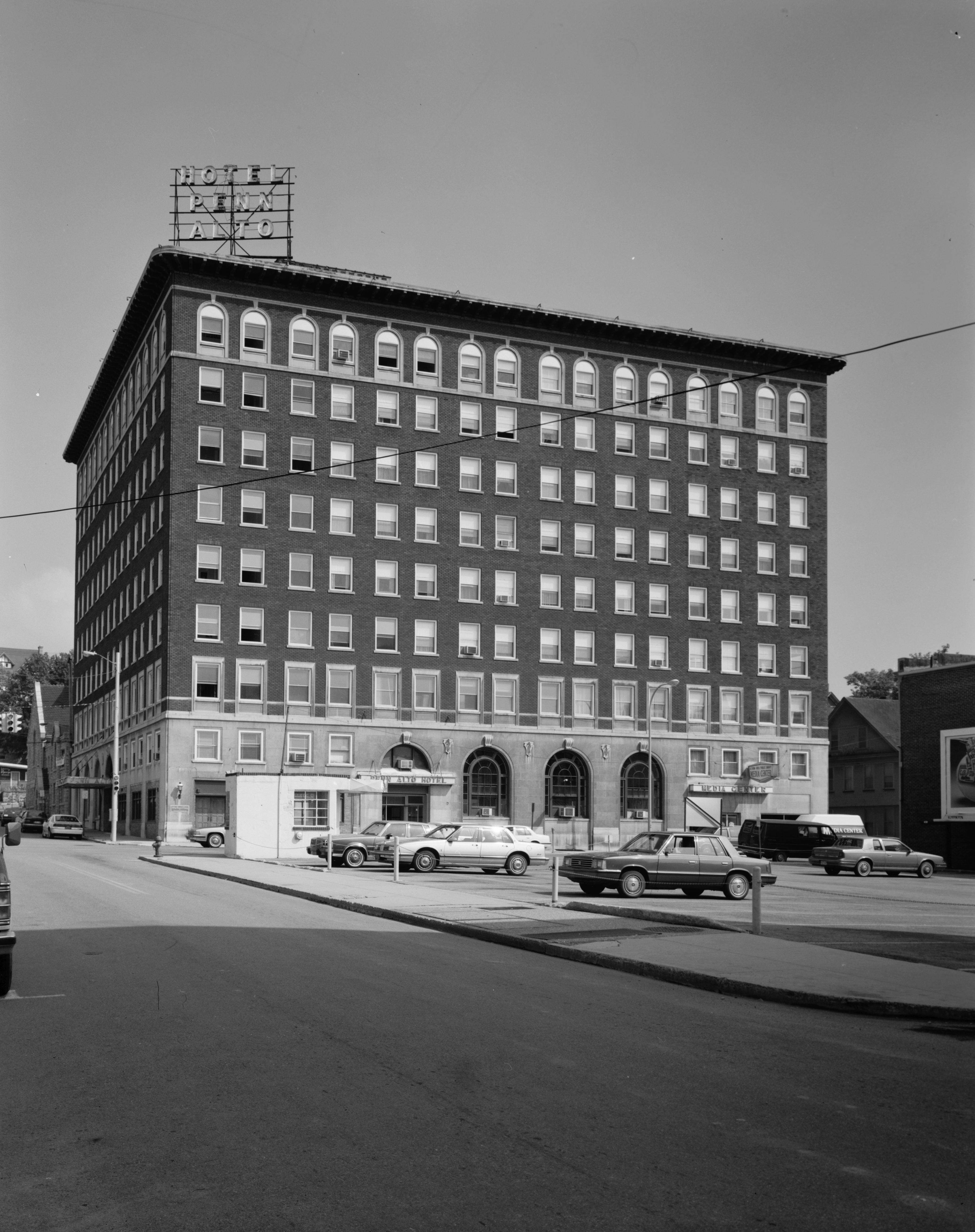 Southeastern side of the Penn Alto Hotel, located at the intersection of Twelfth Street and Thirteenth Avenue in Altoona, Pennsylvania, United States. Built in 1921, it is listed on the National Register of Historic Places.